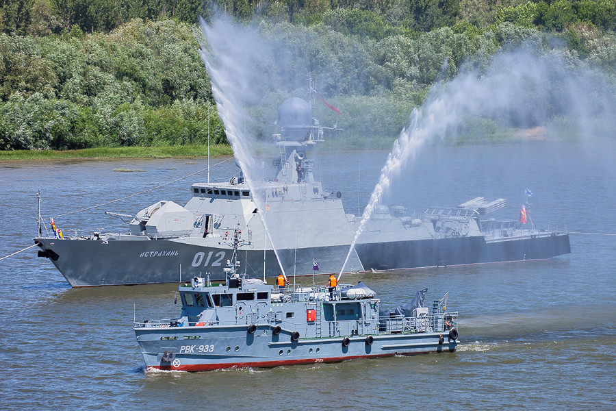 Astrakhan and RVK-933 in Astrakhan.